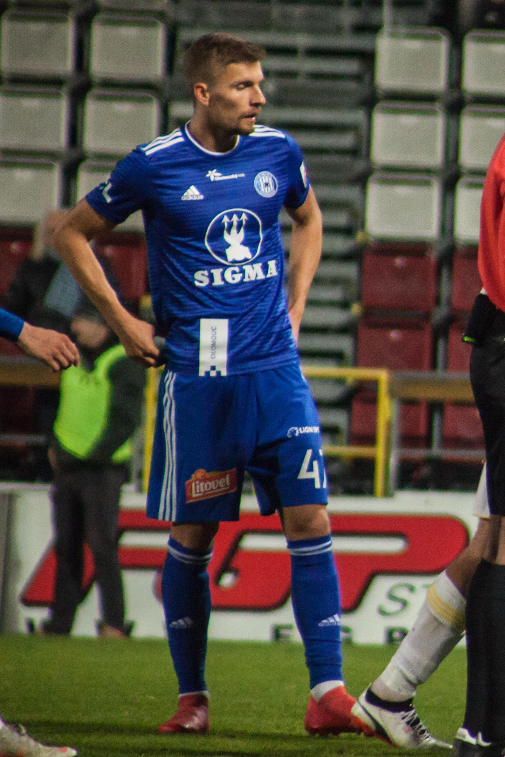 Jiří Texl At Czech cup (MOL Cup) match SK Sigma Olomouc-FC Fastav Zlín played on 15 November 2018